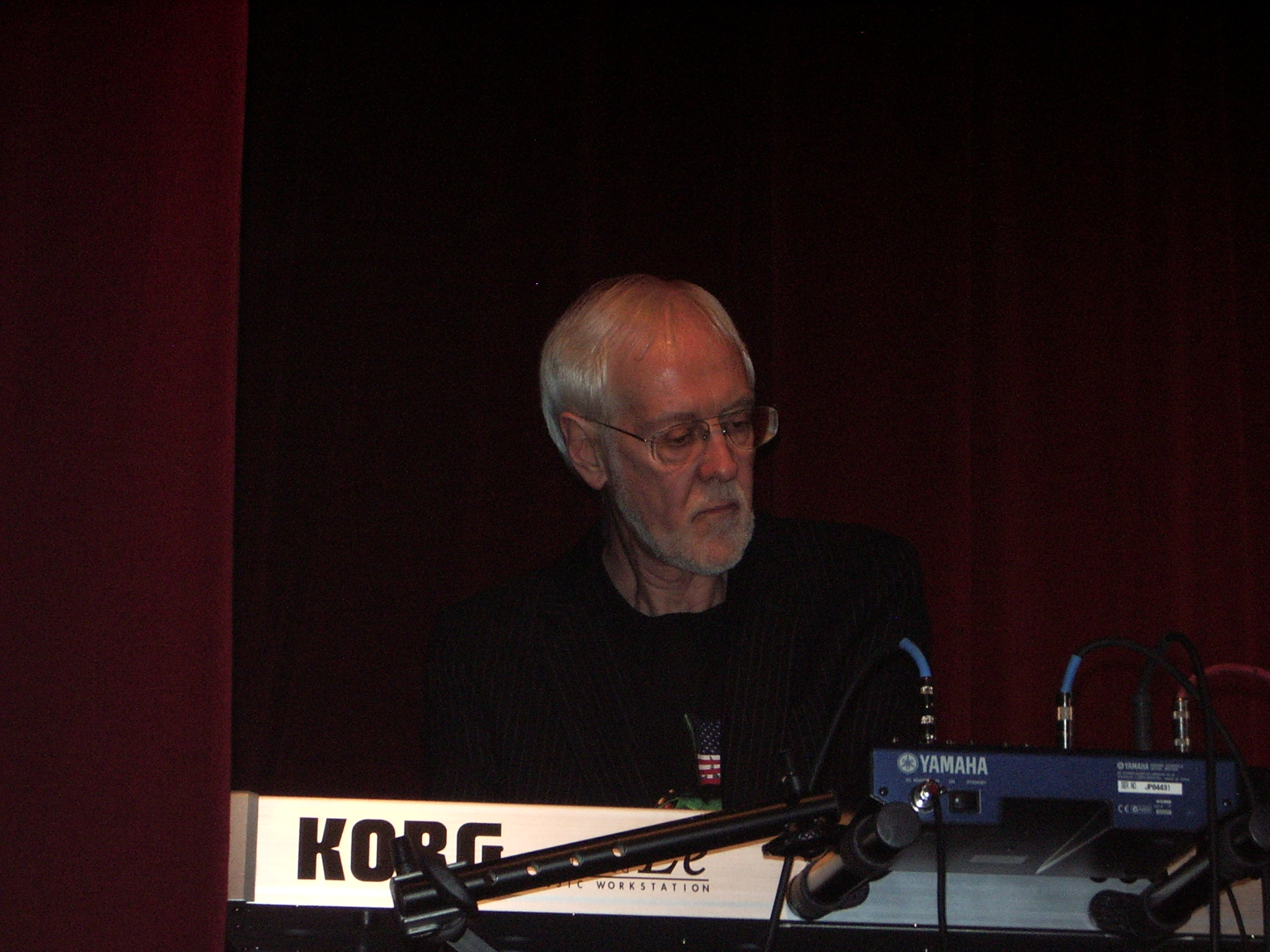 John Hawken on stage with Strawbs on 7th June 2008 at The Pavillion, Hailsham, East Sussex, England